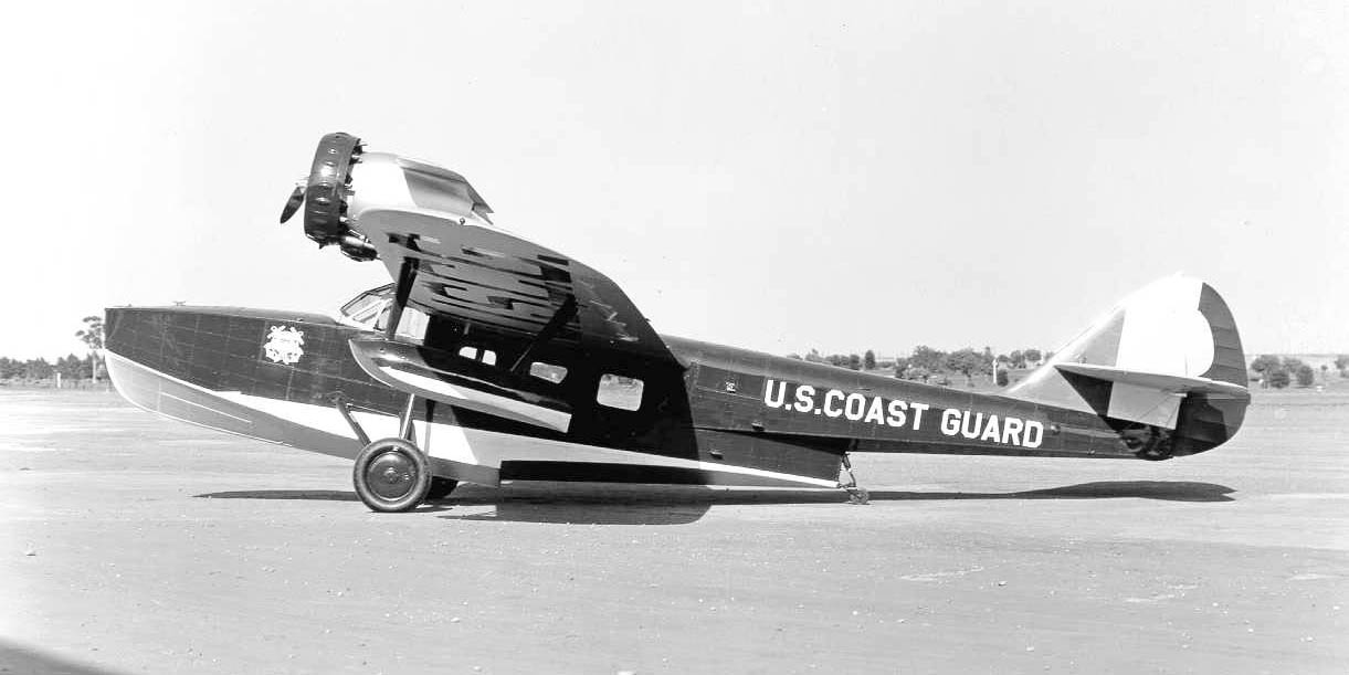 The U.S. Coast Guard Douglas RD-2 Adhara (serial 29, later 129, V-111). It was delivered in July 1932 and crashed in March 1937.